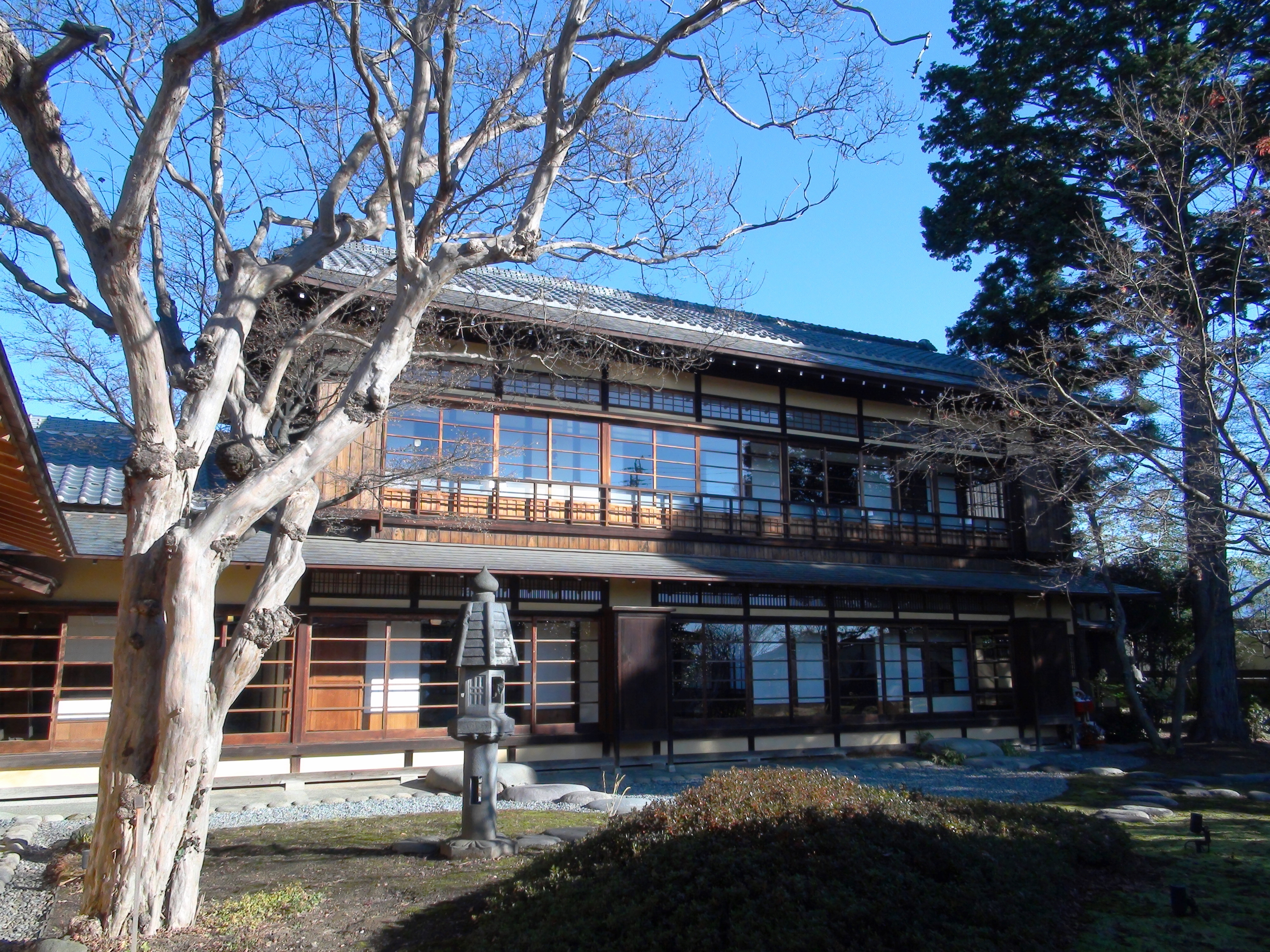 Nezu Memorial Museum main building